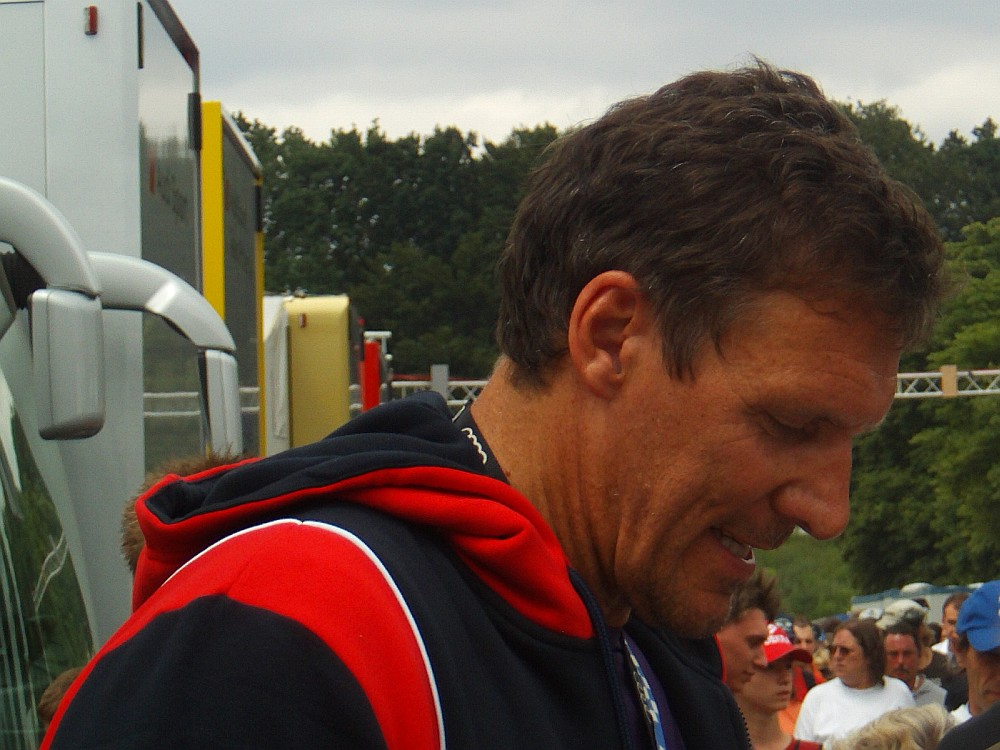 German actor Ralf Möller, guest at the 2008 Norisring race